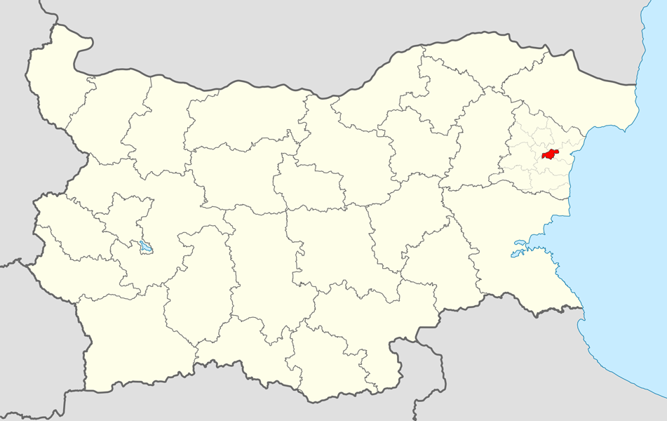 Location map of Beloslav Municipality within Varna Province, Bulgaria. Equirectangular projection, N/S stretching 130 %. Geographic limits of the map: N: 44.4° N S: 41.1° N W: 22.1° E E: 28.9° E